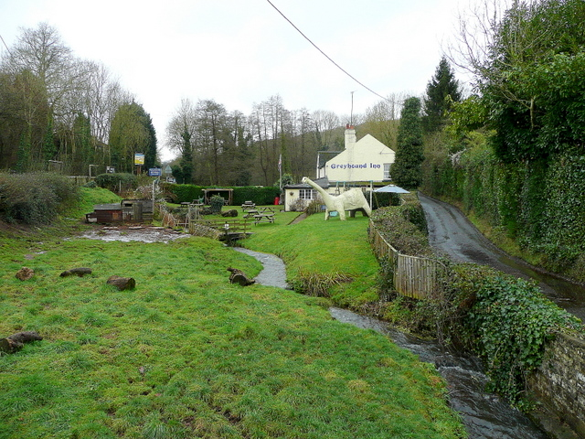 The Greyhound Inn, Pope's Hill A traditional pub by the A4151 on the edge of the Forest of Dean. According to the pub's website, the white creature is Horace the Forest Dinosaur!